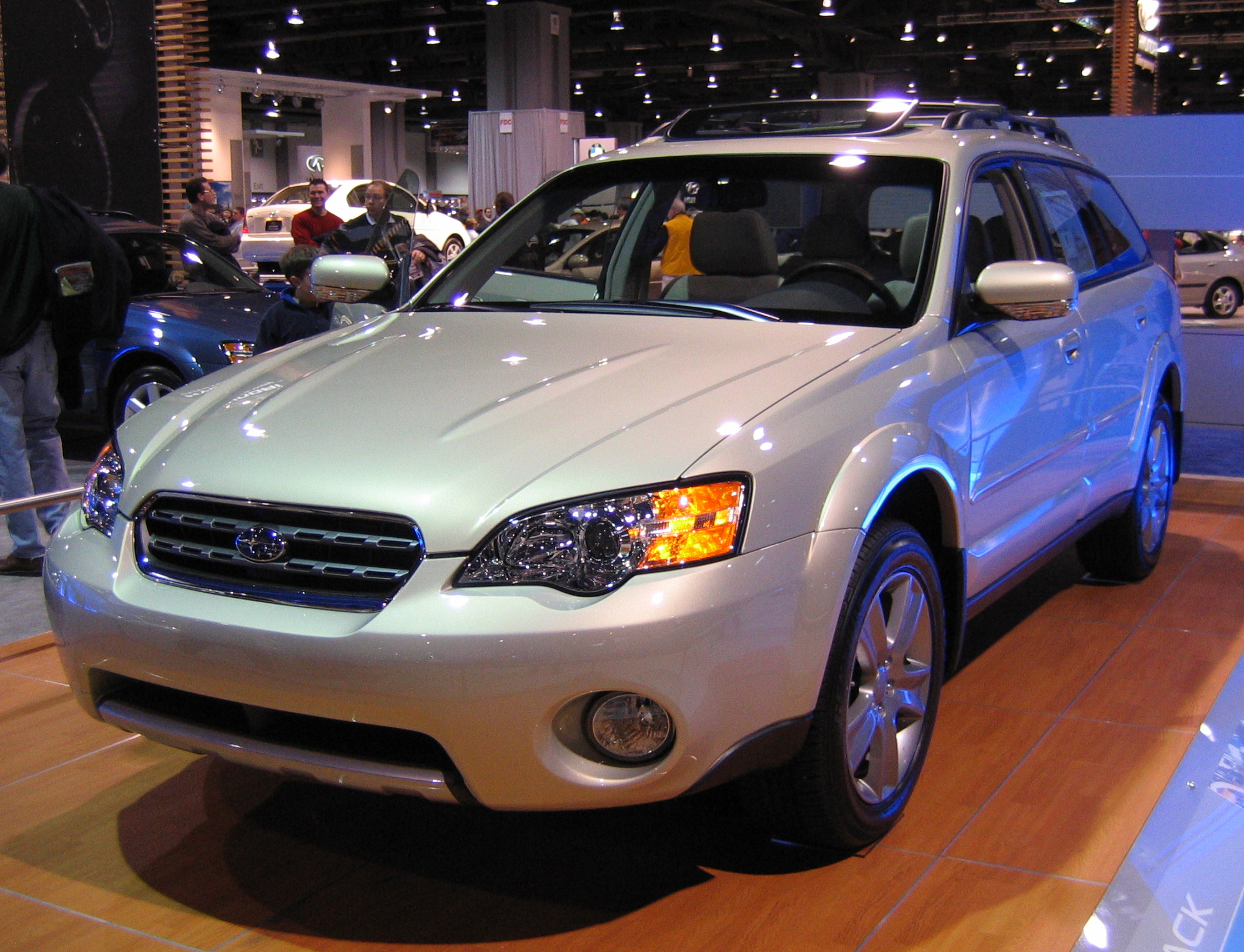 Subaru Outback at the 2006 Washington Auto Show. Photo by Kmf164, taken on January 28, 2006.